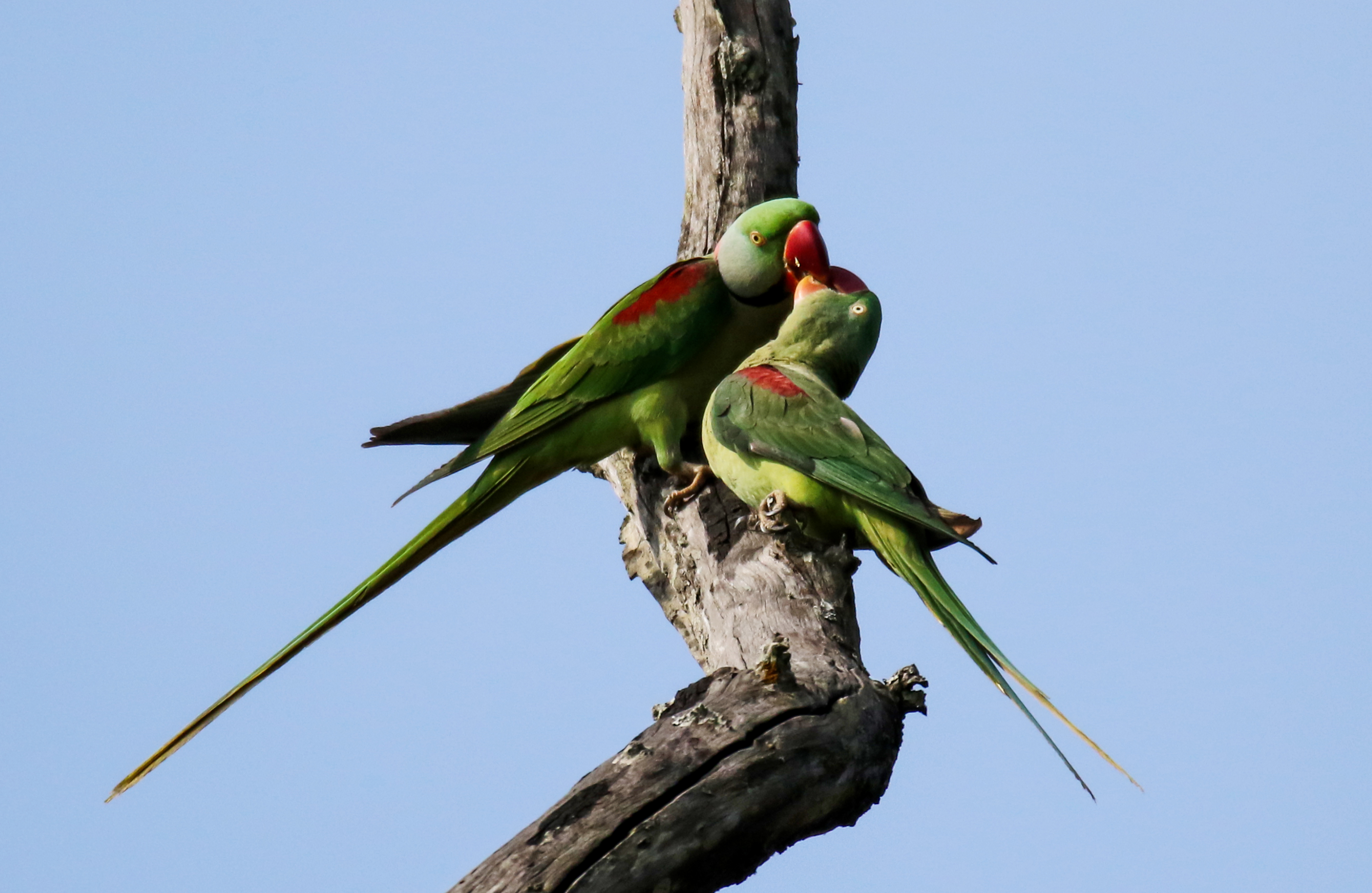 Birds of Nepal